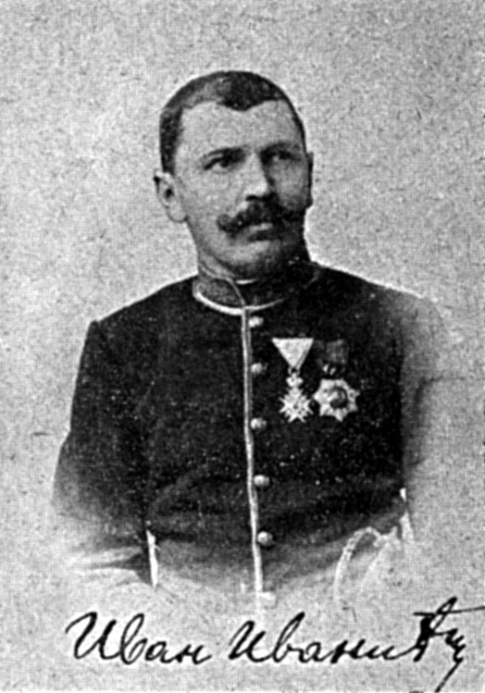 A photo of Ivan Ivanić published by Matica Srpska on 1899, in his book "Bunjevci i Šokci"